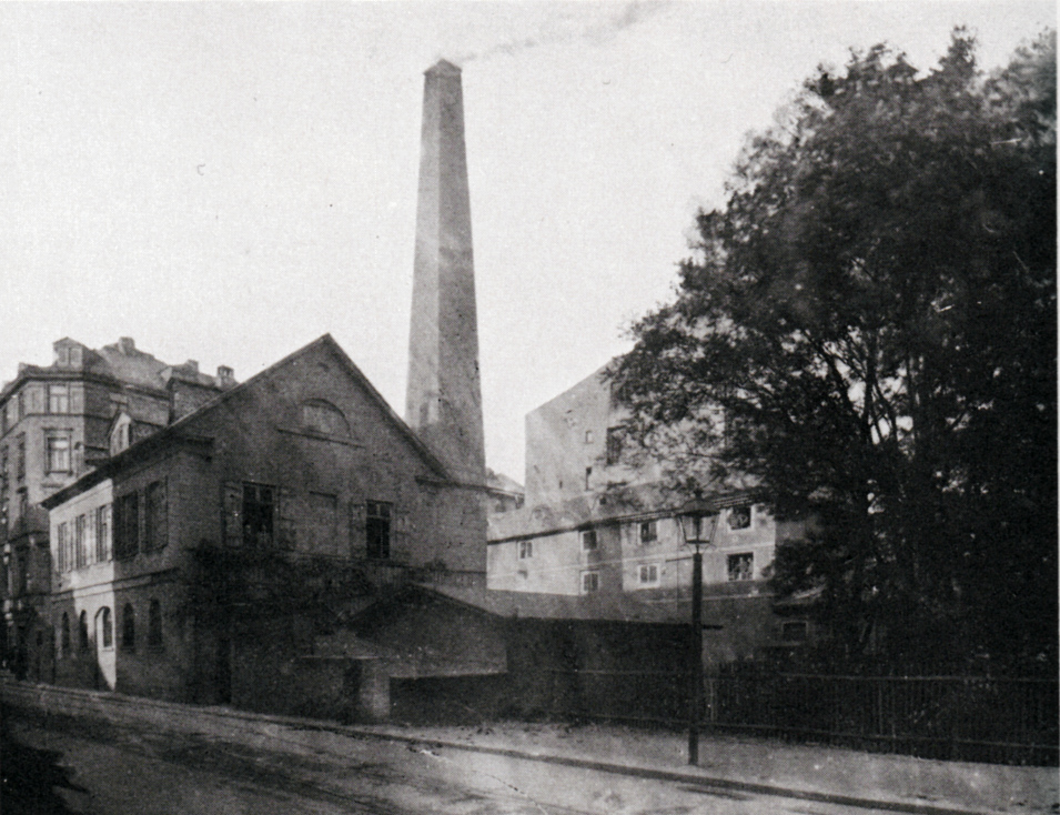 Chemical plant Lucius and Saul around 1885. Note: The source dates the photo to 1885; then the Chemical Plant Lucius and Saul already didn't exist. So it could only be a photo of the former factory building which is incorrectly assigned in the source.